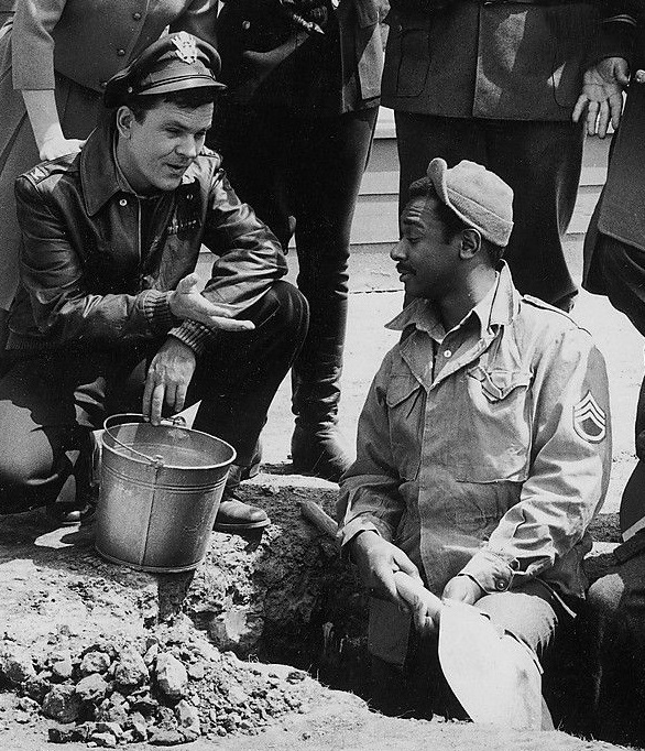 Colonel Hogan (Bob Crane) talking to Sergeant Kinchloe (Ivan Dixon) This is a cropped image of Hogan's Heroes main cast 1965.jpg which was originally posted on the local site.